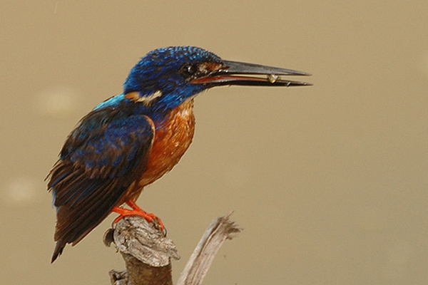 Uganda Shining Blue Kingfisher (Alcedo quadribrachys) Jacana Lodge QE NP Dec 2005